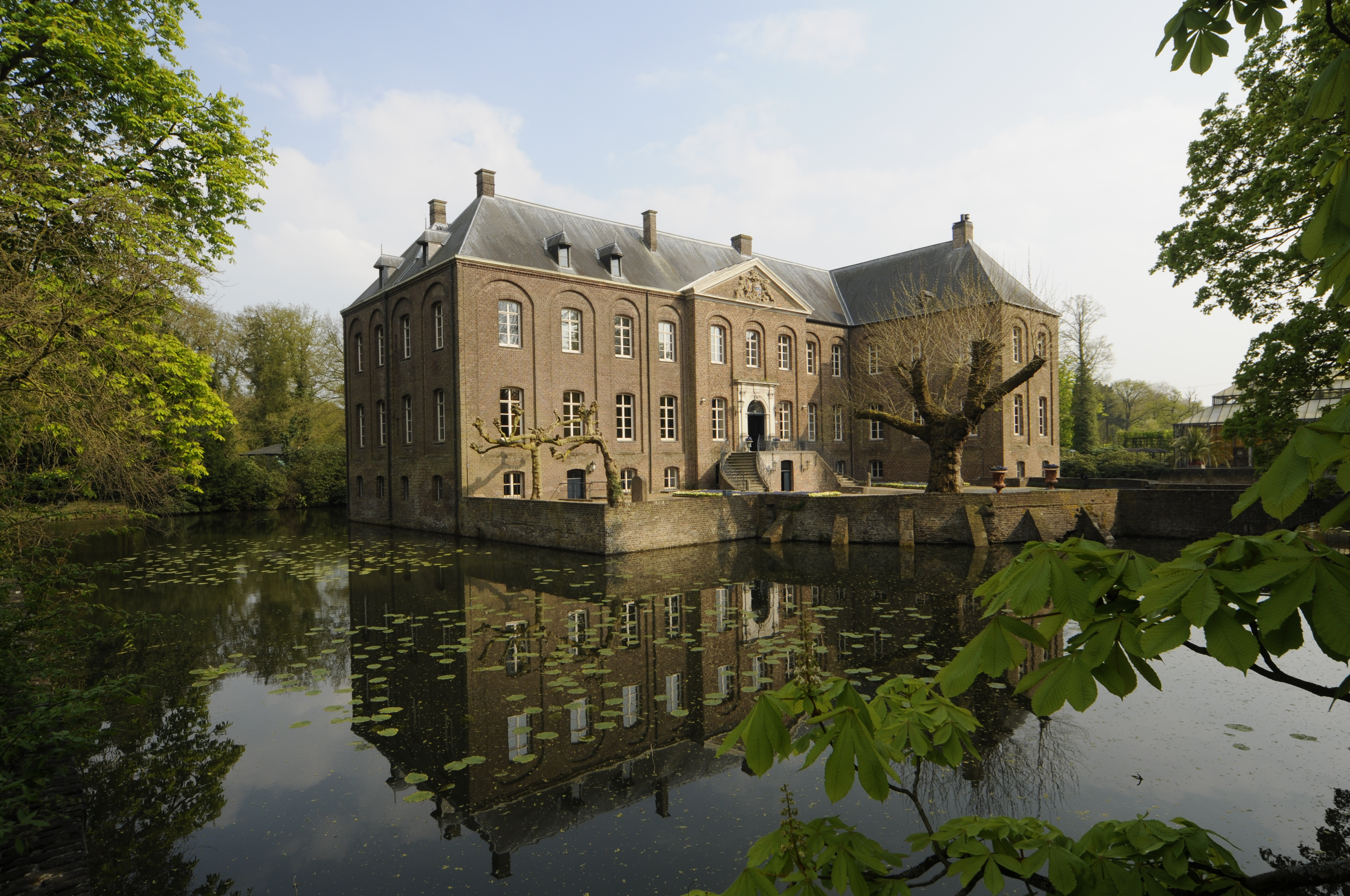 Het Kasteel